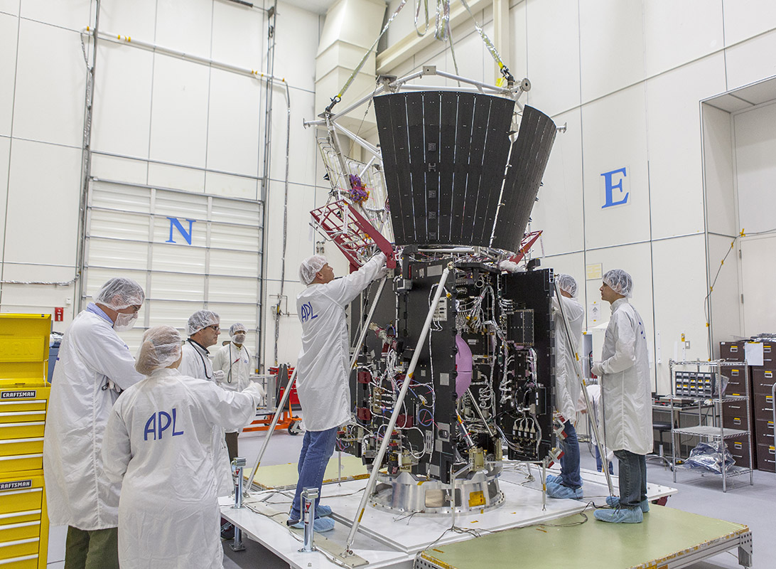 Mission integration and test team members secure the deck holding the structure assembly and several other critical thermal-protection components atop NASA’s Solar Probe Plus spacecraft body on April 5, 2017, in the cleanroom at the Johns Hopkins University Applied Physics Laboratory in Laurel, Maryland.